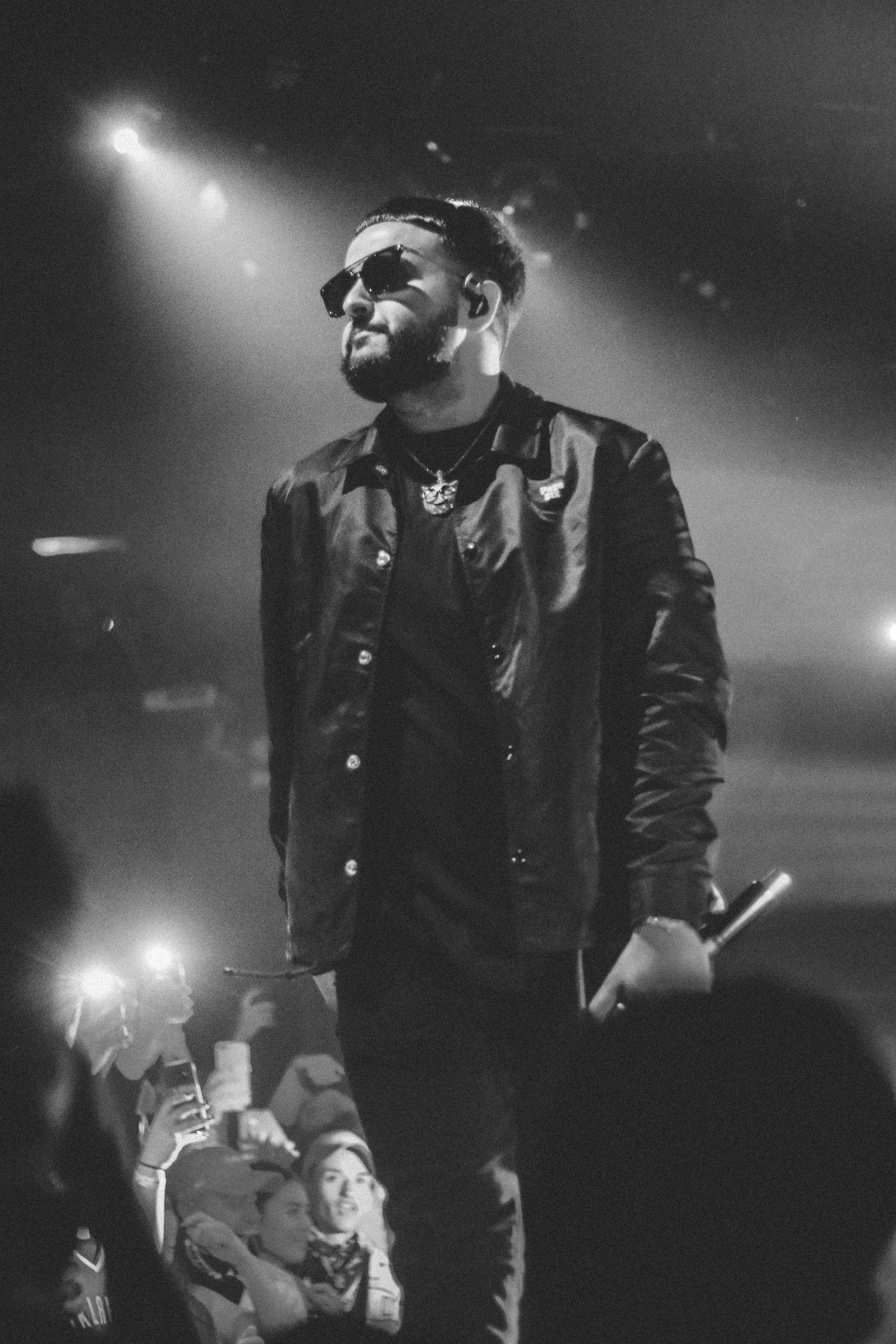 Nav performing in Denver, Colorado on May 7th 2018 at Cervantes Masterpiece Ballroom